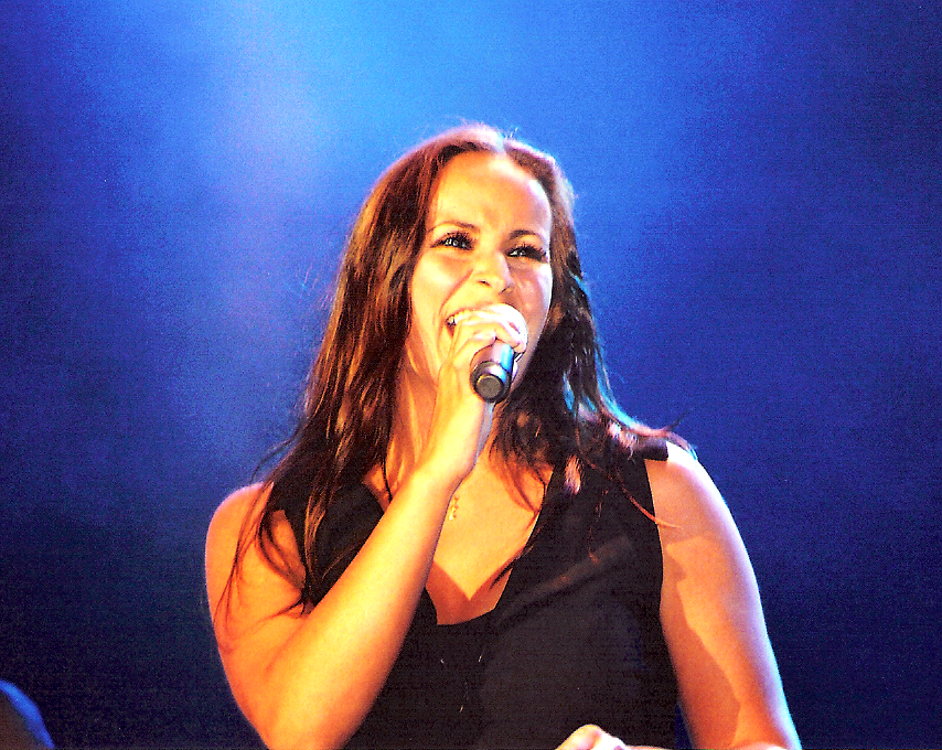 The Danish-Greenlandic songstress Julie Berthelsen performing a concert in the Tivoli Garden in Copenhagen, Denmark, 15th June 2007.